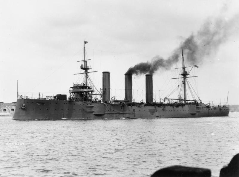 A port broadside view of British Monmouth class armoured cruiser HMS KENT